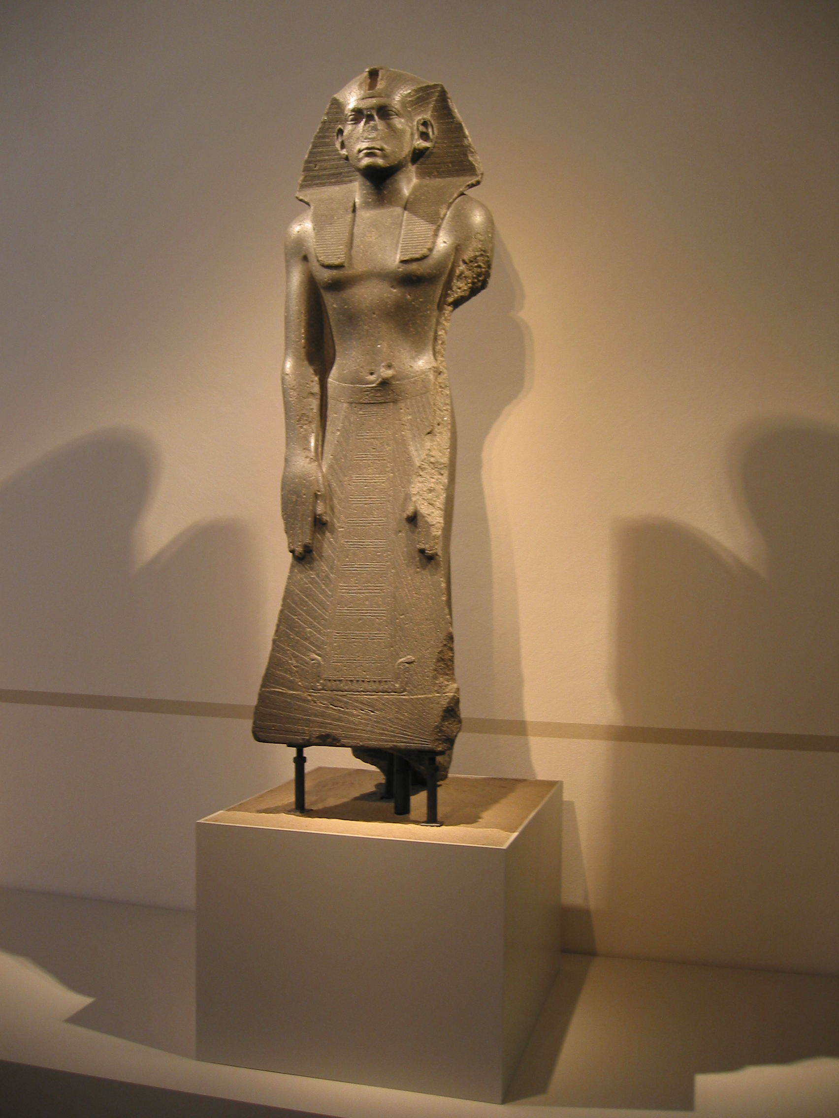 Object in the Ägyptisches Museum Berlin (Egyptian museum, building of the New Museum), Berlin.